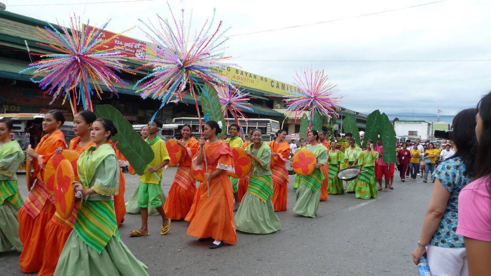 Colorful and artistic exhibition presented by a group of street dancers candidate during the 2008 Chicharon - Iniruban festival.